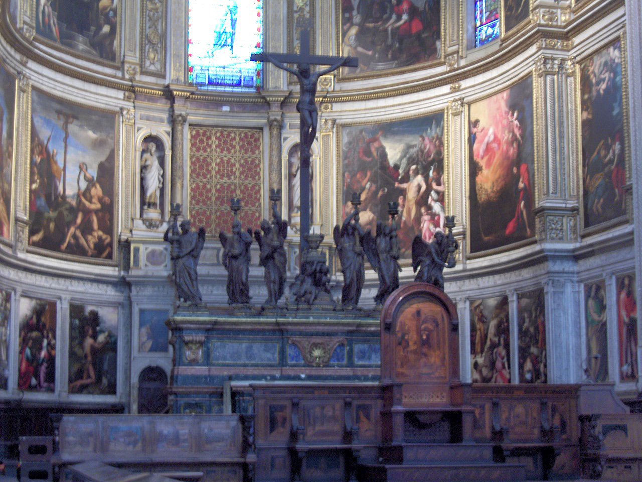 altar of the cathedral; Pisa, Italy own photo